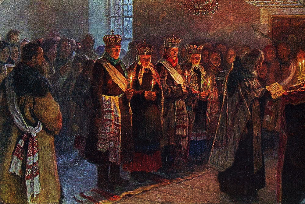 N.P. Bogdanov-Belsky (1868-1945). Wedding. 1904